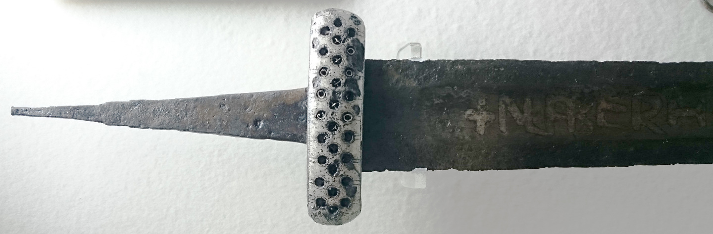 Ulfberht sword in the Historical Museum in Kazan, Tatarstan, Russia. This is one of three Ulfberht swords found in the territory of the Volga Bulgars. Its hilt has been classified as Petersen type T-2. "Its guard or cross-piece has decorations consisting of three horizontal lines of large ‘cells’, which are connected to each other by narrow diagonal channels cut out of the guard and filled with twisted silver wire. The ends of these bands of decoration are formed by such wire being rolled into loops, while in the centre the two rows of silver wire form crosses. Unfortunately the pommel is missing, but it was almost certainly decorated in the same manner." V. Shpakovsky and D. Nicolle, Armies of the Volga Bulgars & Khanate of Kazan, 9th–16th centuries, Osprey Men-at-Arms 491 (2013), 23f.